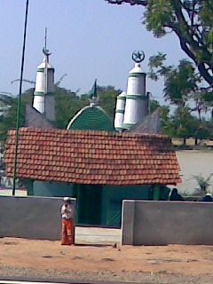 A view of Mursal Ibrahim Shaheed Dargah, Thachuoorani, Ramanathapuram district.